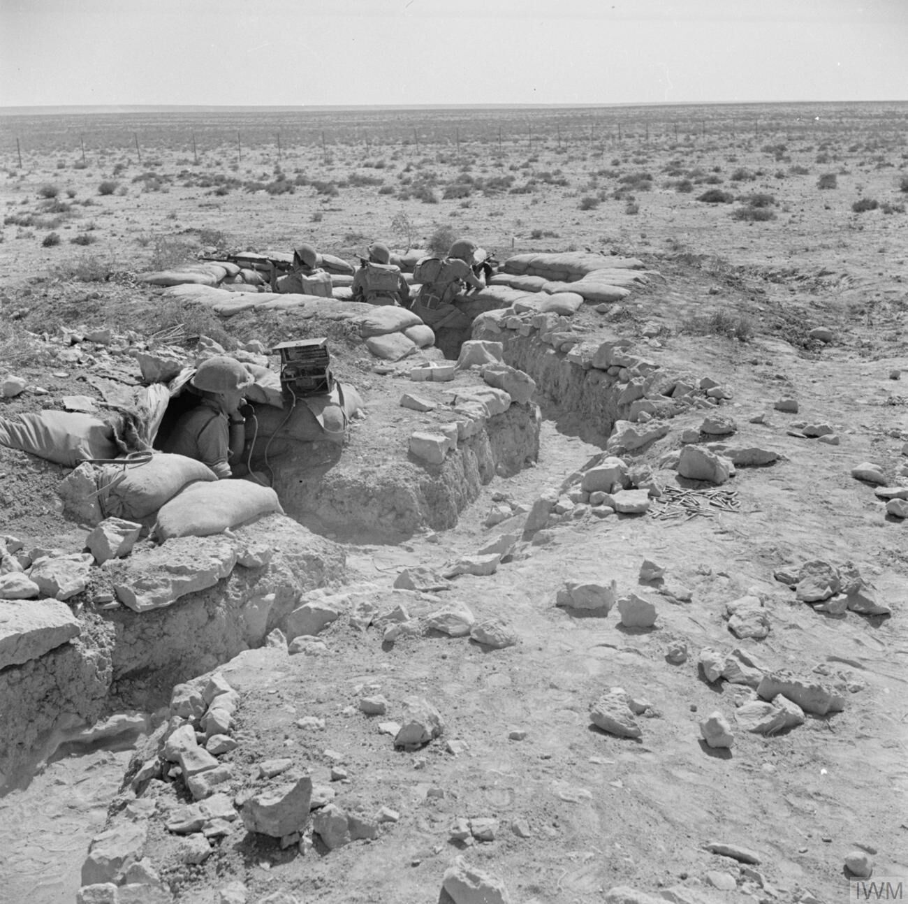 Australian troops man front-line trenches in the Tobruk perimeter, 13 August 1941.